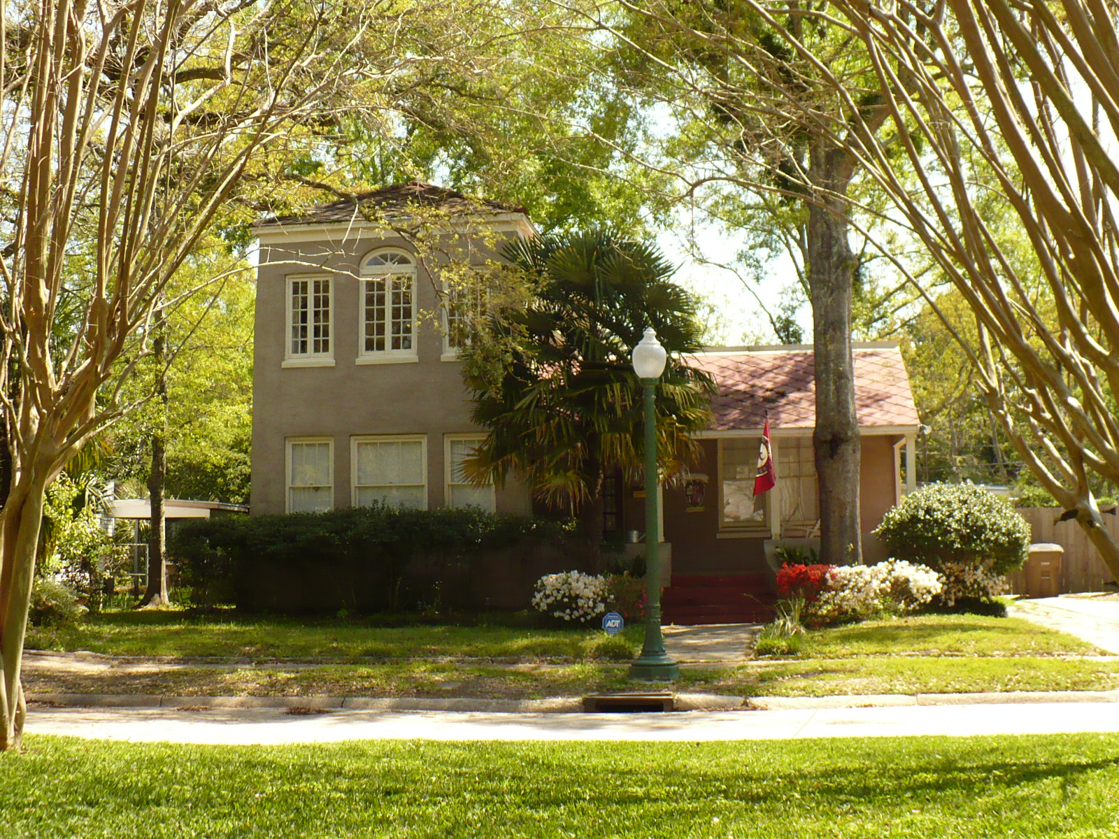 118 Florence Place in Mobile, Alabama. Individually listed on the National Register of Historic Places.